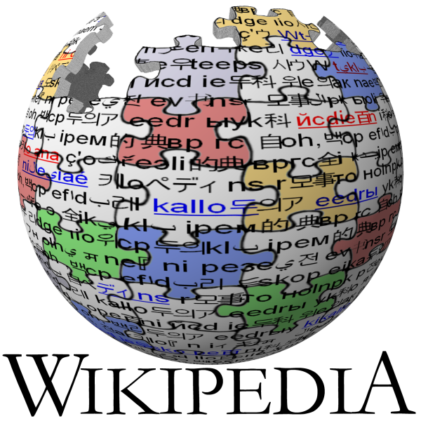 original description: "logo submission (by paullusmagnus) - larger version"